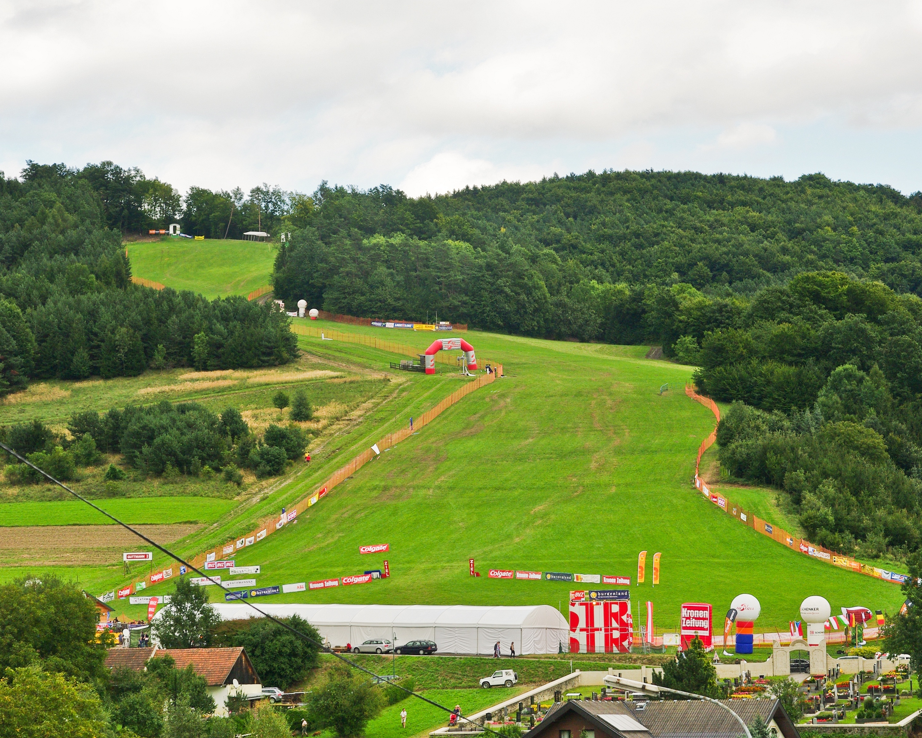 Grass Skiing World Championships 2009: Grasski slope in Rettenbach, Austria.